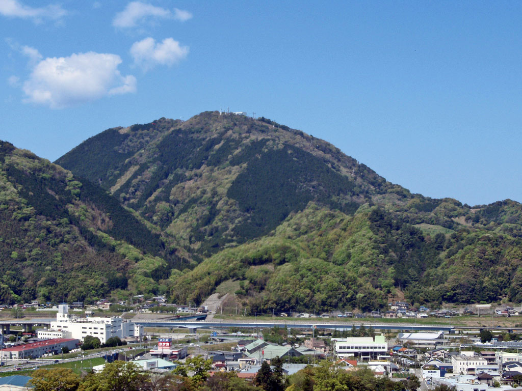 Mount Katsuragi as seen from the east in Izunokuni, Shizuoka Prefecture, Japan.